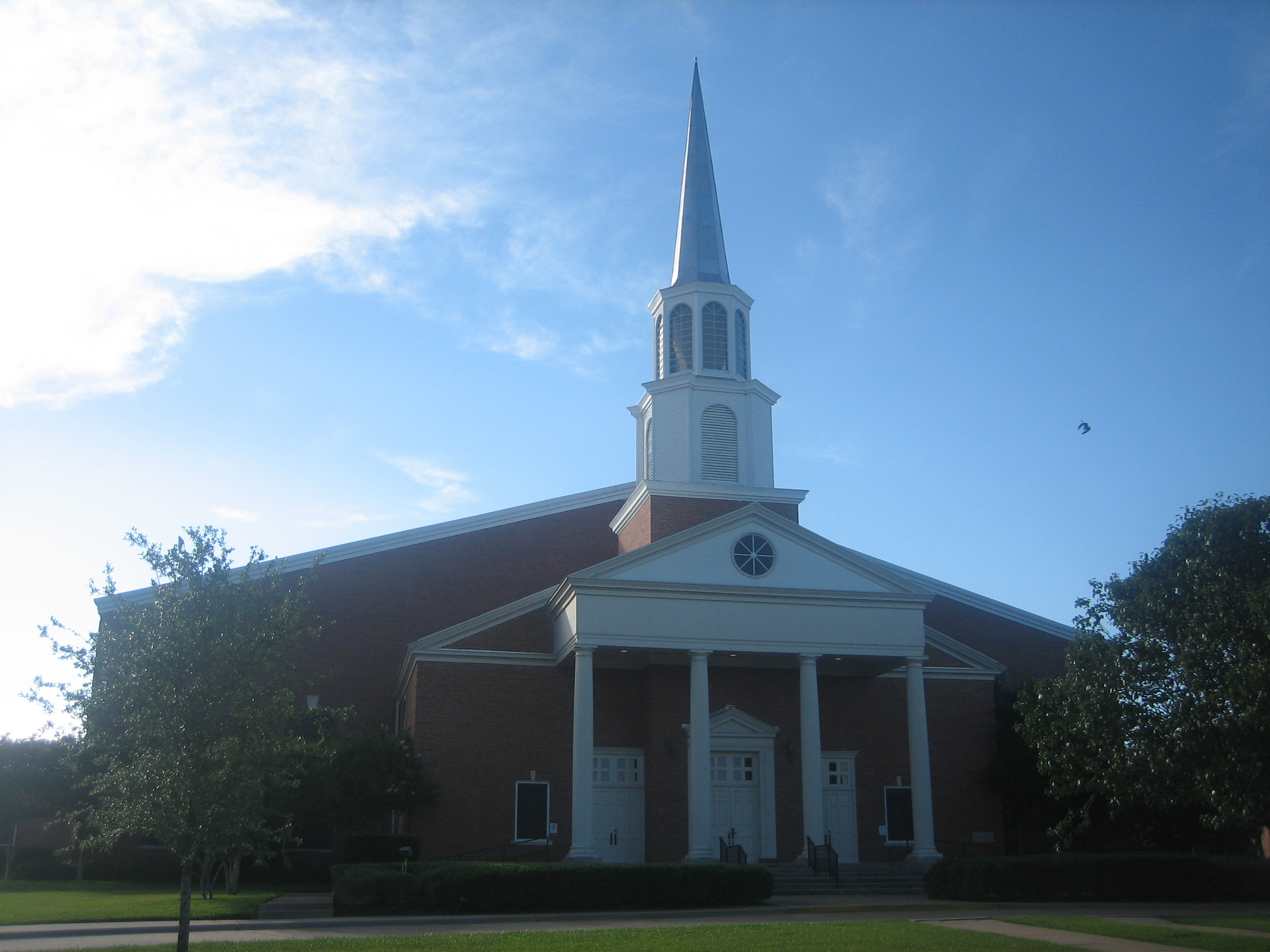 I took photo on May 27, 2009.Billy Hathorn (talk) 02:26, 29 May 2009 (UTC)